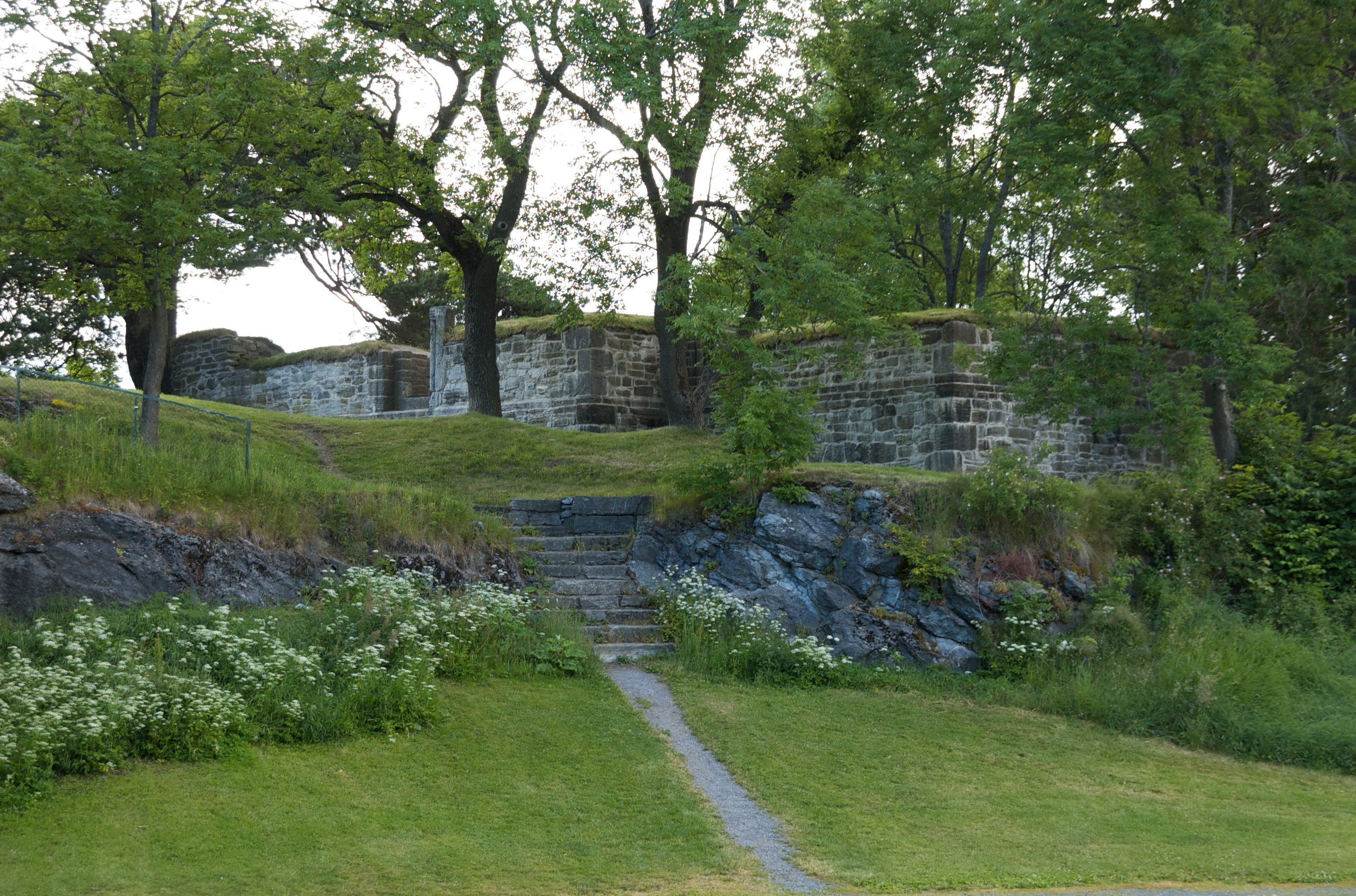 Kapitelberget in Skien, Norway. Ruins of a crypt church from the first half of the 12th century.